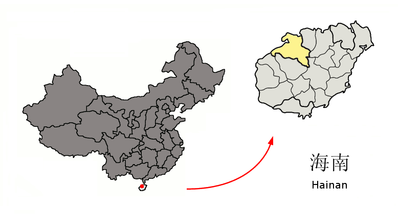 Location of Danzhou City (pink) and the subdivisions directly administered by the province (yellow) within Hainan province of China Map drawn in september 2007 using various sources, mainly : Hainan Counties map from